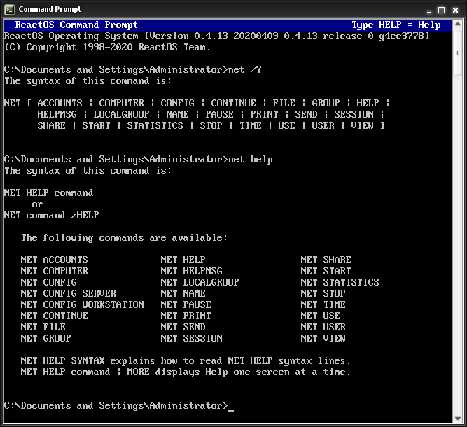 net command on ReactOS-0.4.13